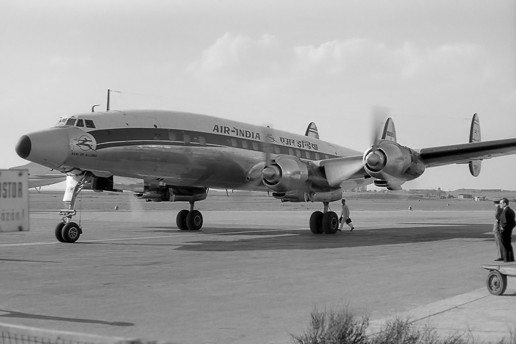 Air India L-1049G Super Constellation at Prague Airport